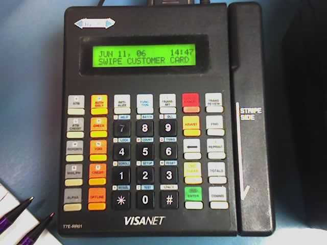 A typical credit card terminal that is still popular today. visanet